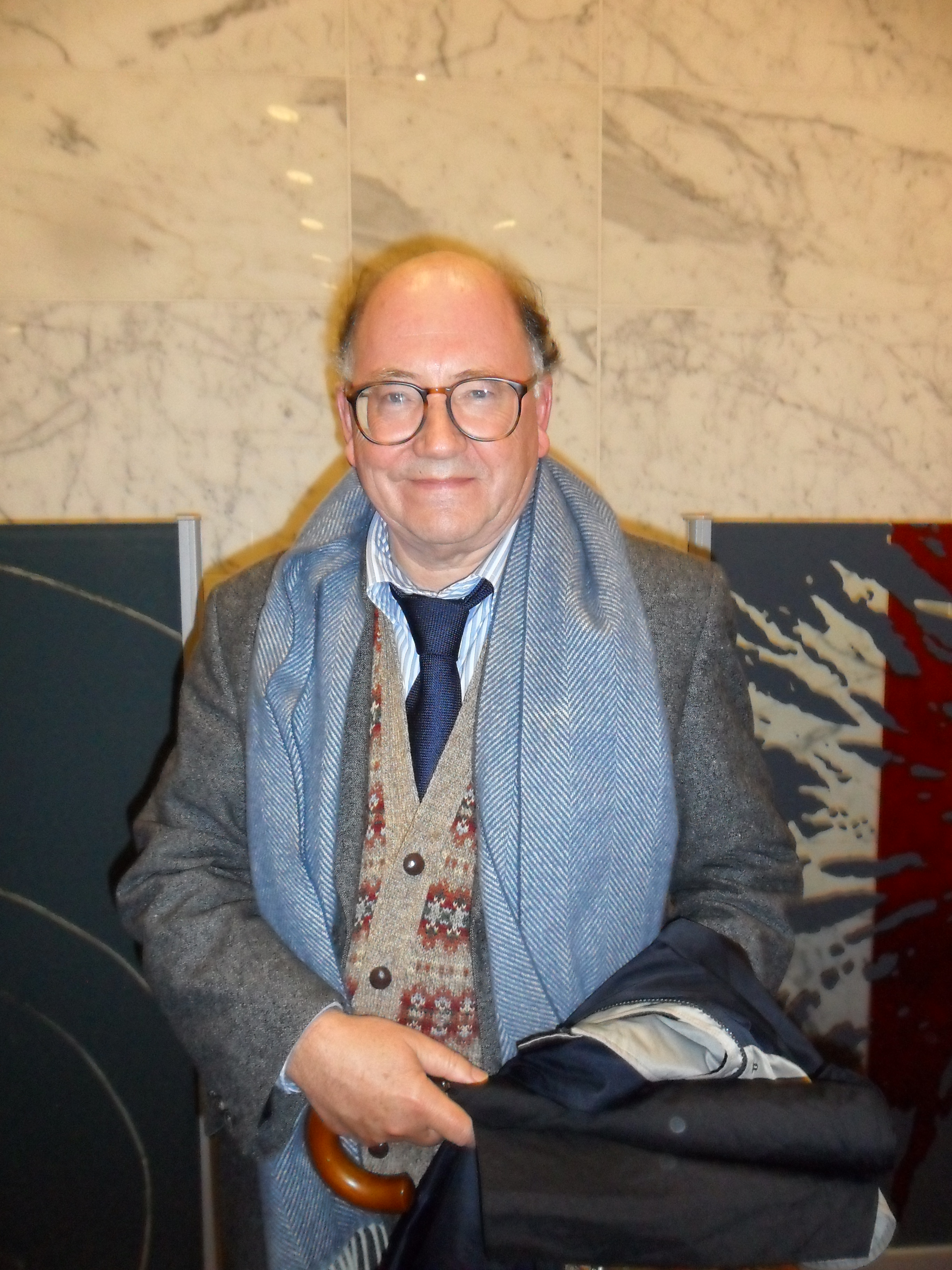 Richard Holmes after a women in science panel discussion at the Royal Society.